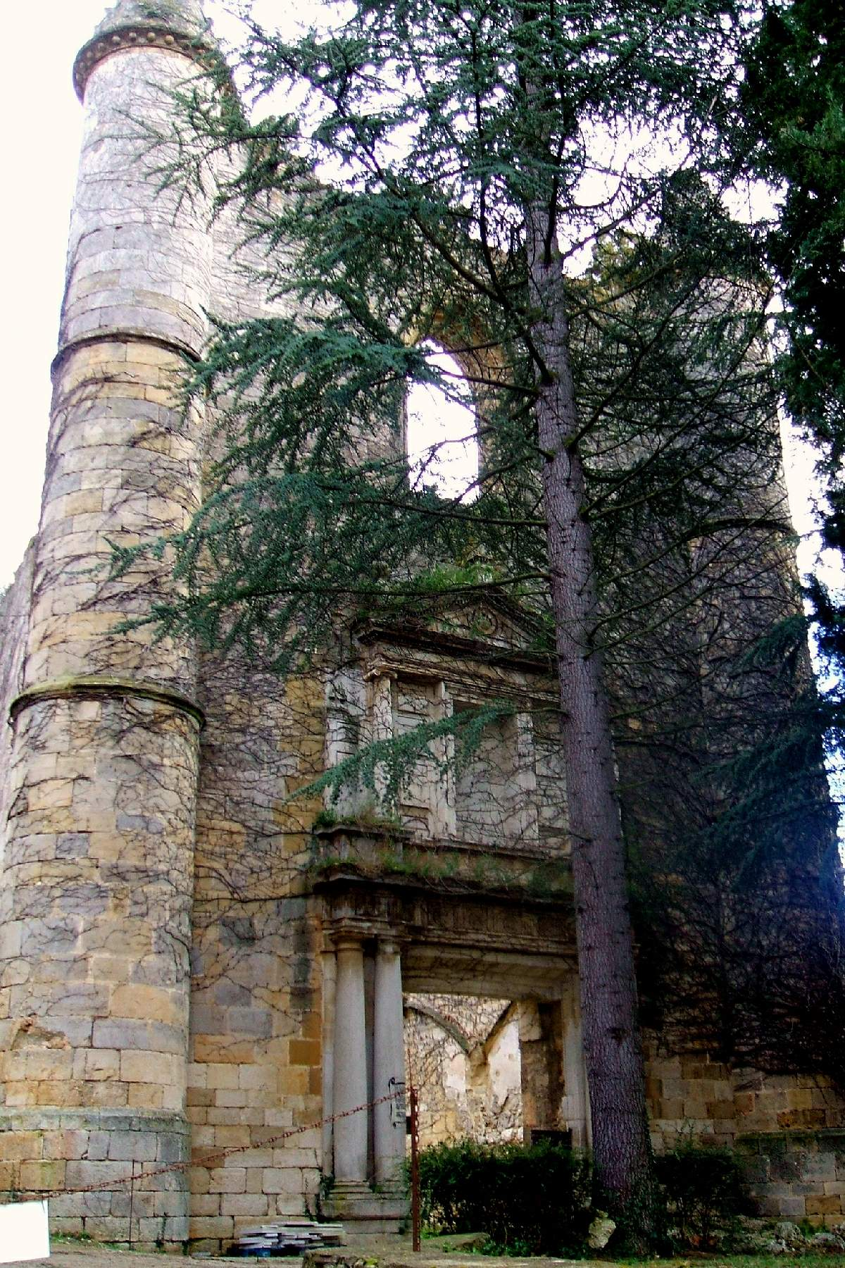 Fachada tardogótica de la arruinada iglesia del antiguo monasterio jerónimo de San Miguel del Monte, en el término municipal de Miranda de Ebro (Burgos, Castilla y León, España)